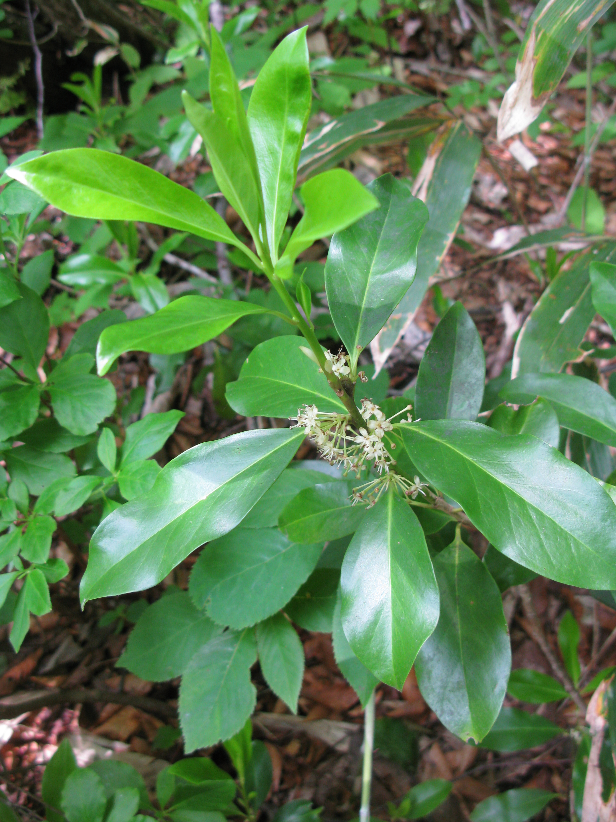 Ilex leucoclada,Aizu area,Fukushima pref.,Japan